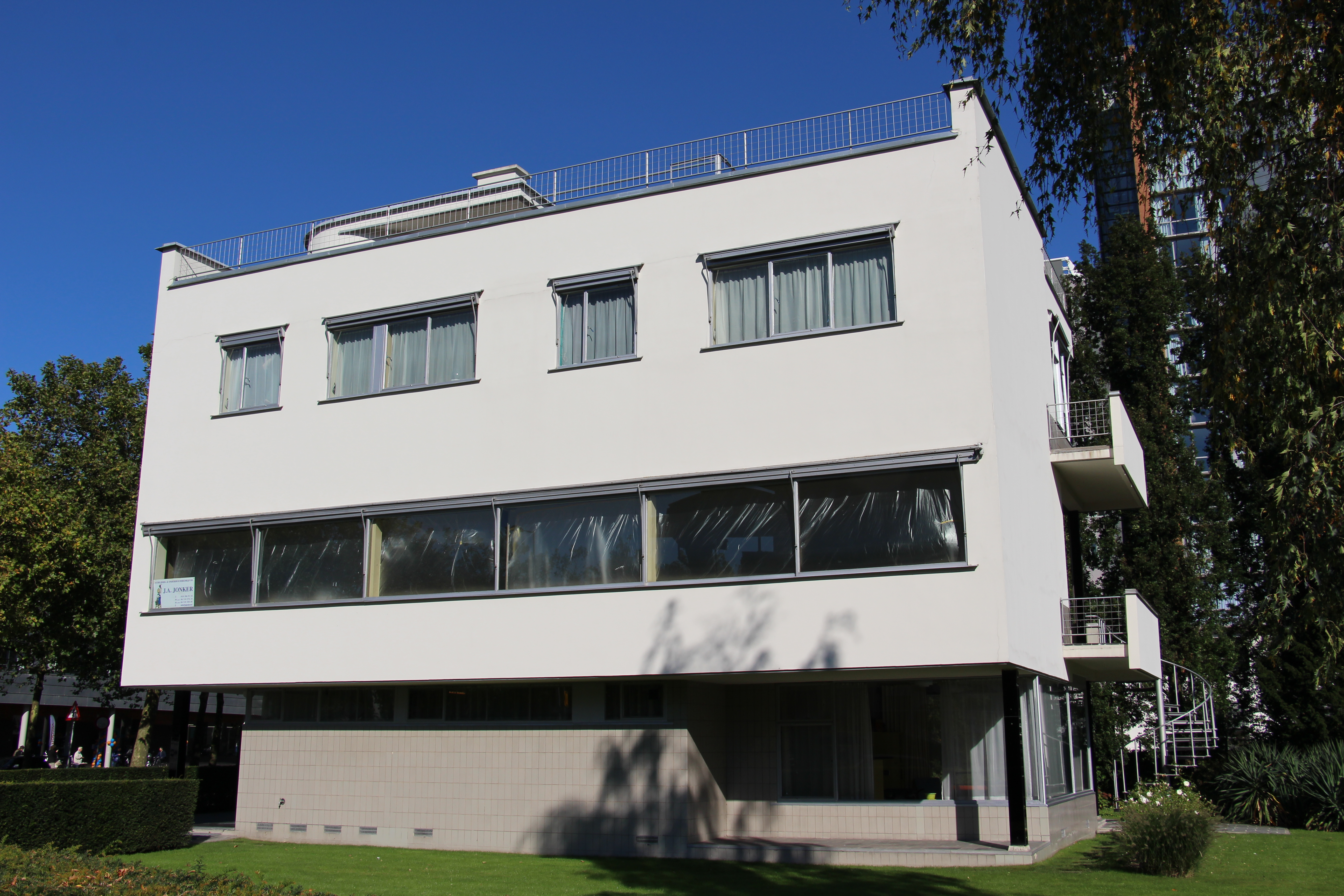 Dijkzigt. Jongkindstraat Private house designed in Nieuwe Bouwen style for the Sonneveld family. Albertus Sonneveld was one of the directors of the Van Nelle factory. Arch. Johannes Brinkman and Leendert van der Vlugt 1932-33. The Rotterdam Stichting Bevordering van Volkskracht foundation bought the museum house in 1977. The house was restored and opened to the public in 2001. The restoration work was done by architects’ firm Molenaar & Van Winden.